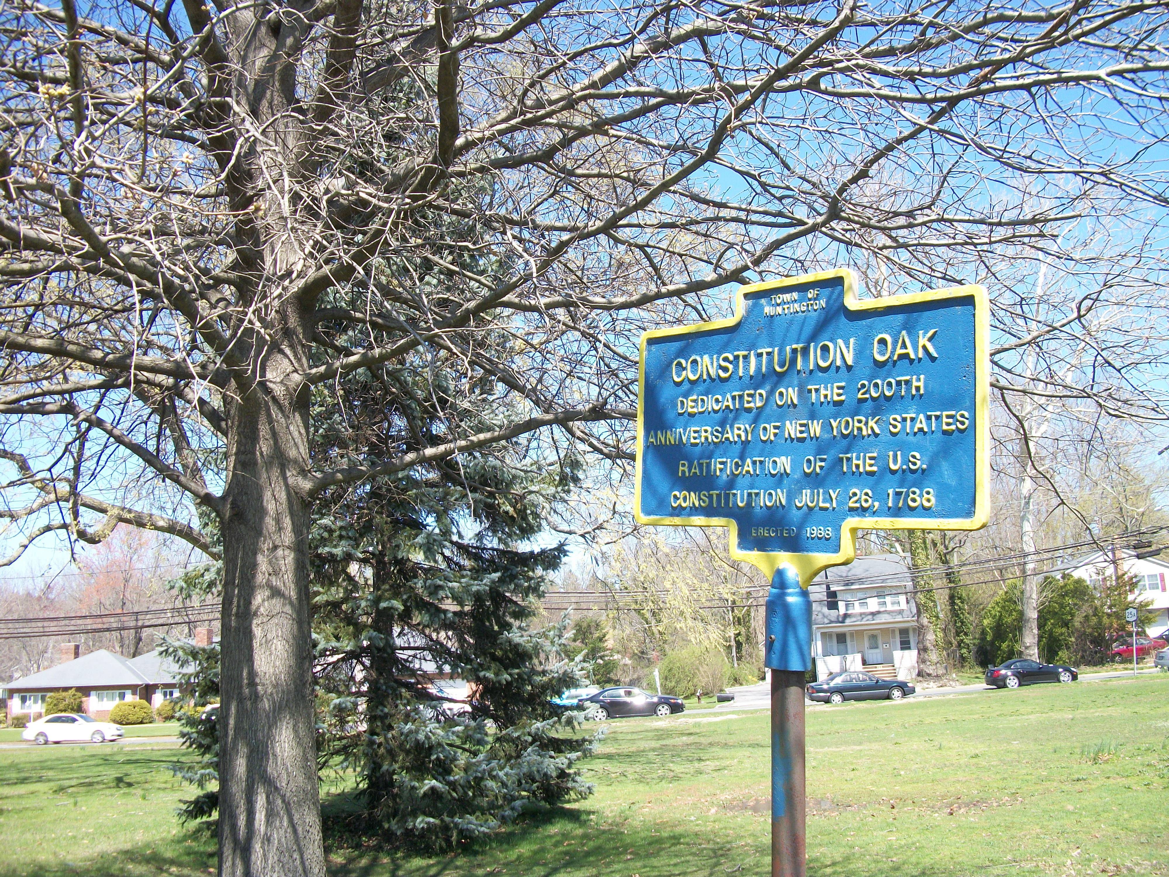 "Constitution Oak," an oak tree planted in the Old Town Green Historic District along New York State Route 25A on the 200th Anniversary of New York State's ratification of the United States Constitution. A plaque was added in the year after this tree was planted.